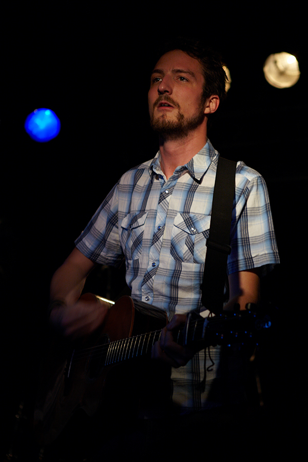 Concert Photo of Frank Turner in Berlin, Magnet Club, 11.12.2009